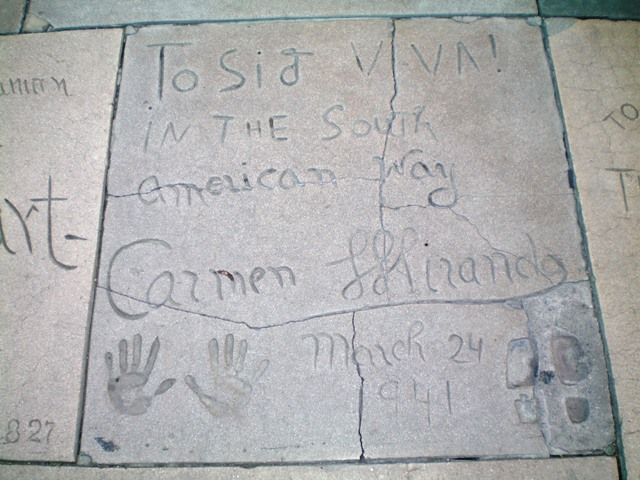 Grauman's Chinese Theatre - Carmen Miranda in March 24, 1941.